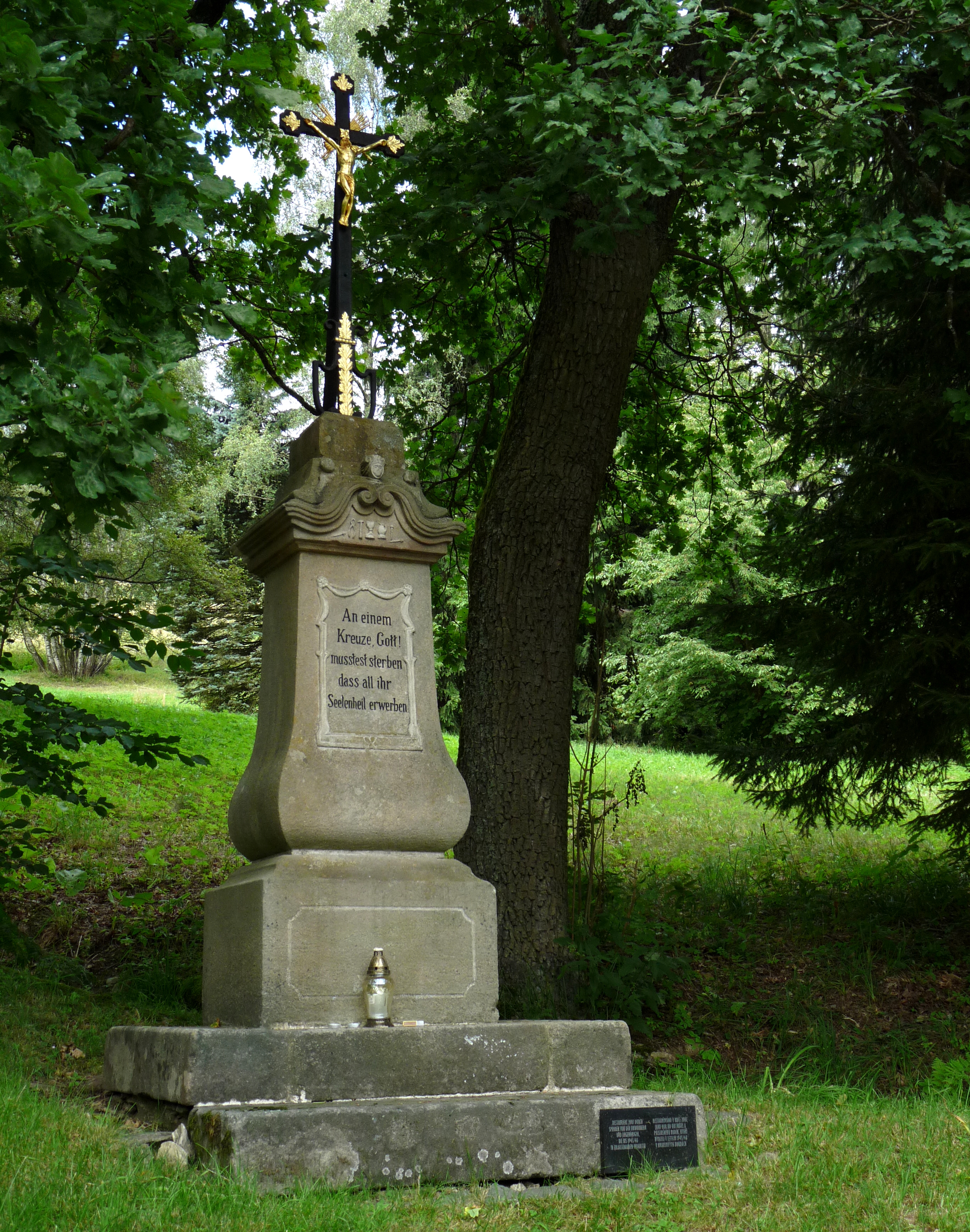 Labská (Špindlerův Mlýn) in the Giant Mountains, Czech Republic, wayside cross.